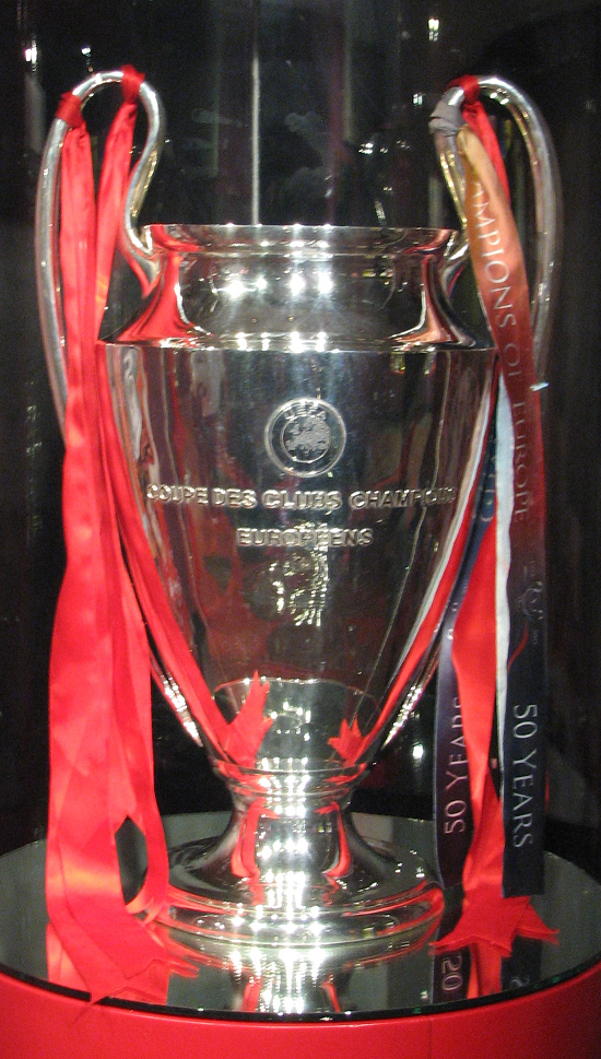 The UEFA Champions League original trophy between 1994-95 and 2004-05 seasons.